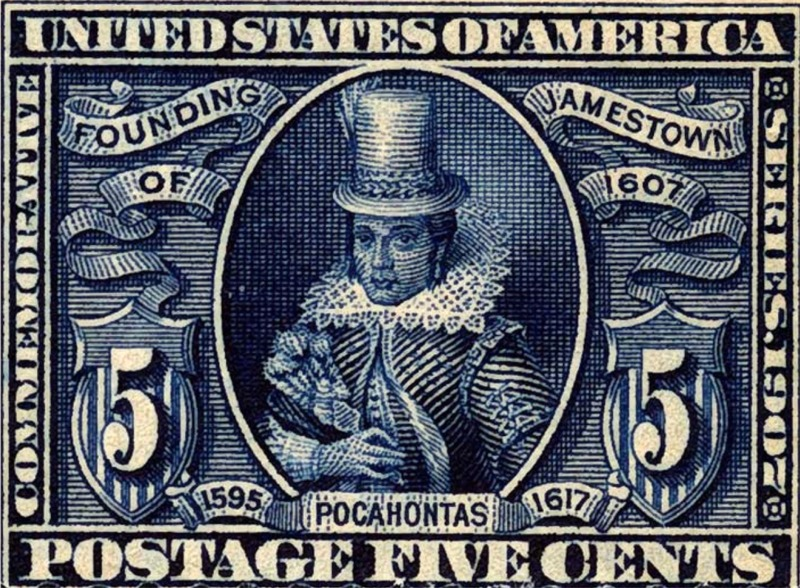 US stamp honoring Pocahontas